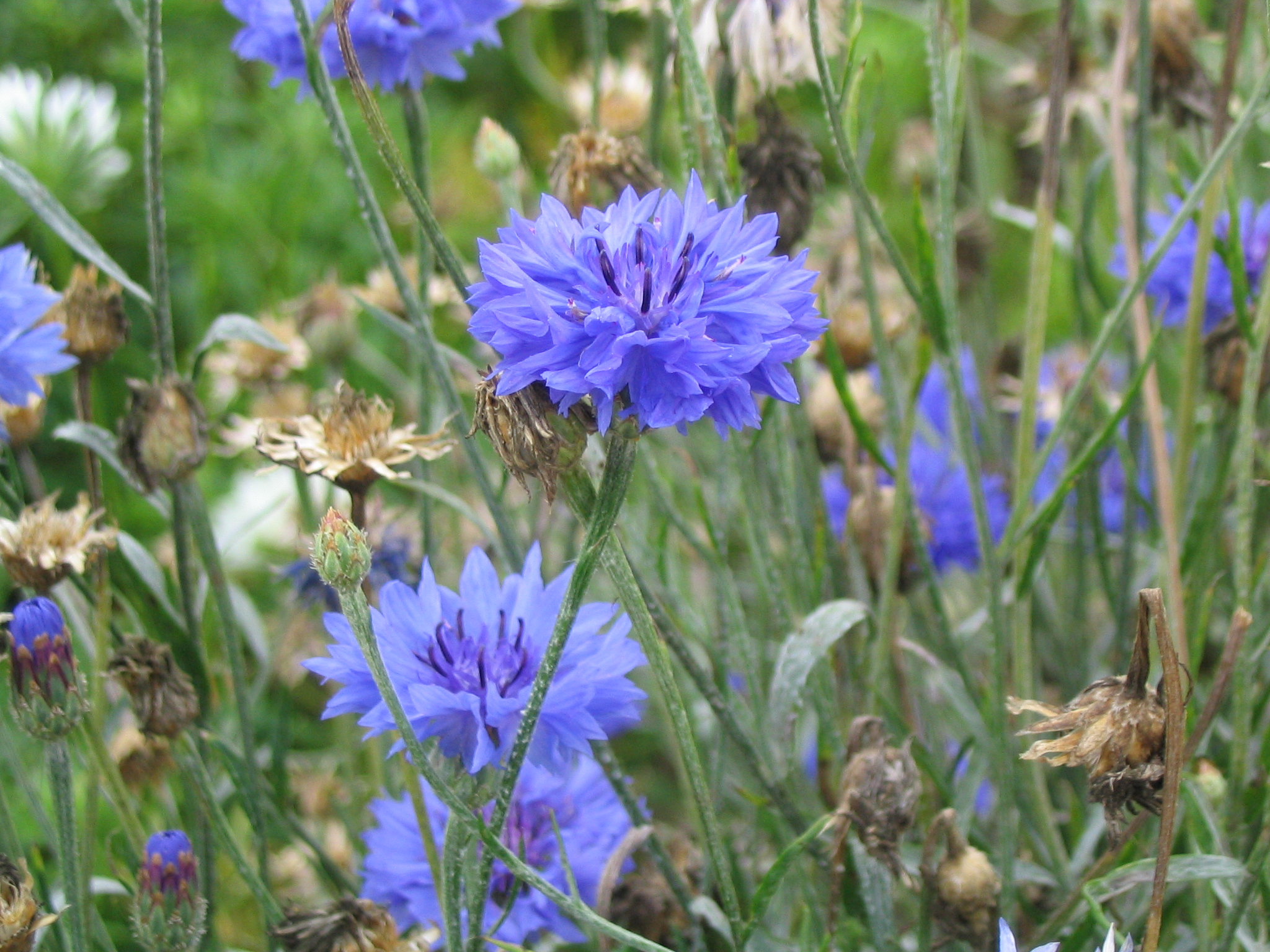 Centaurea cyanus Author: Goku122